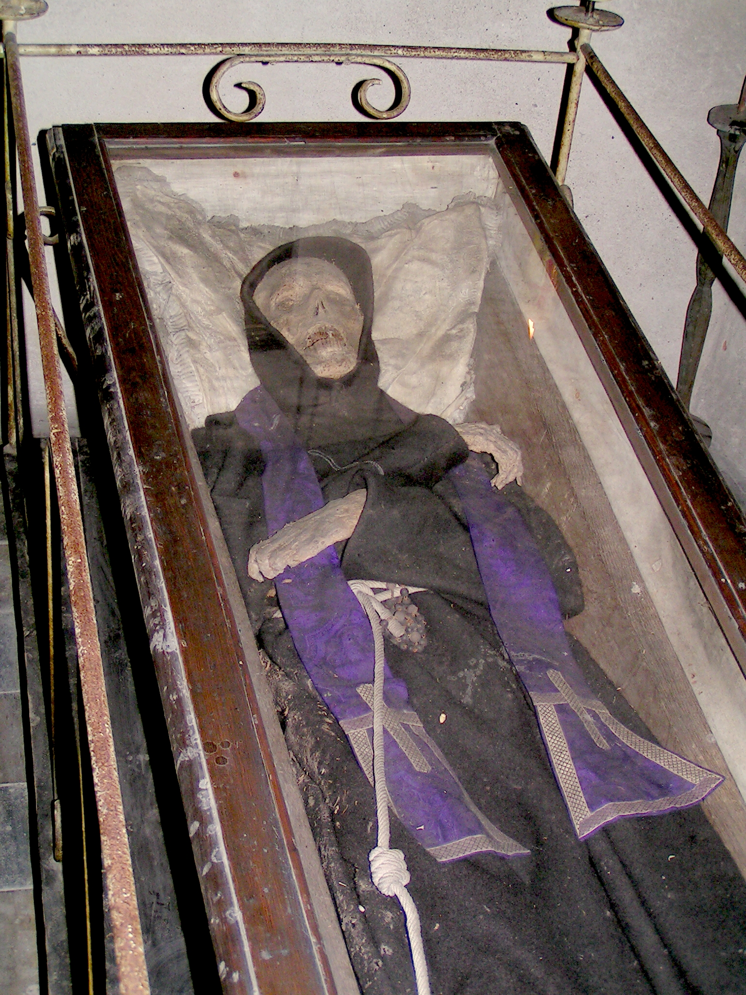 Cracow, underground Reformed Franciscan monastery. The coffin of father Sebastian Wolicki relics.